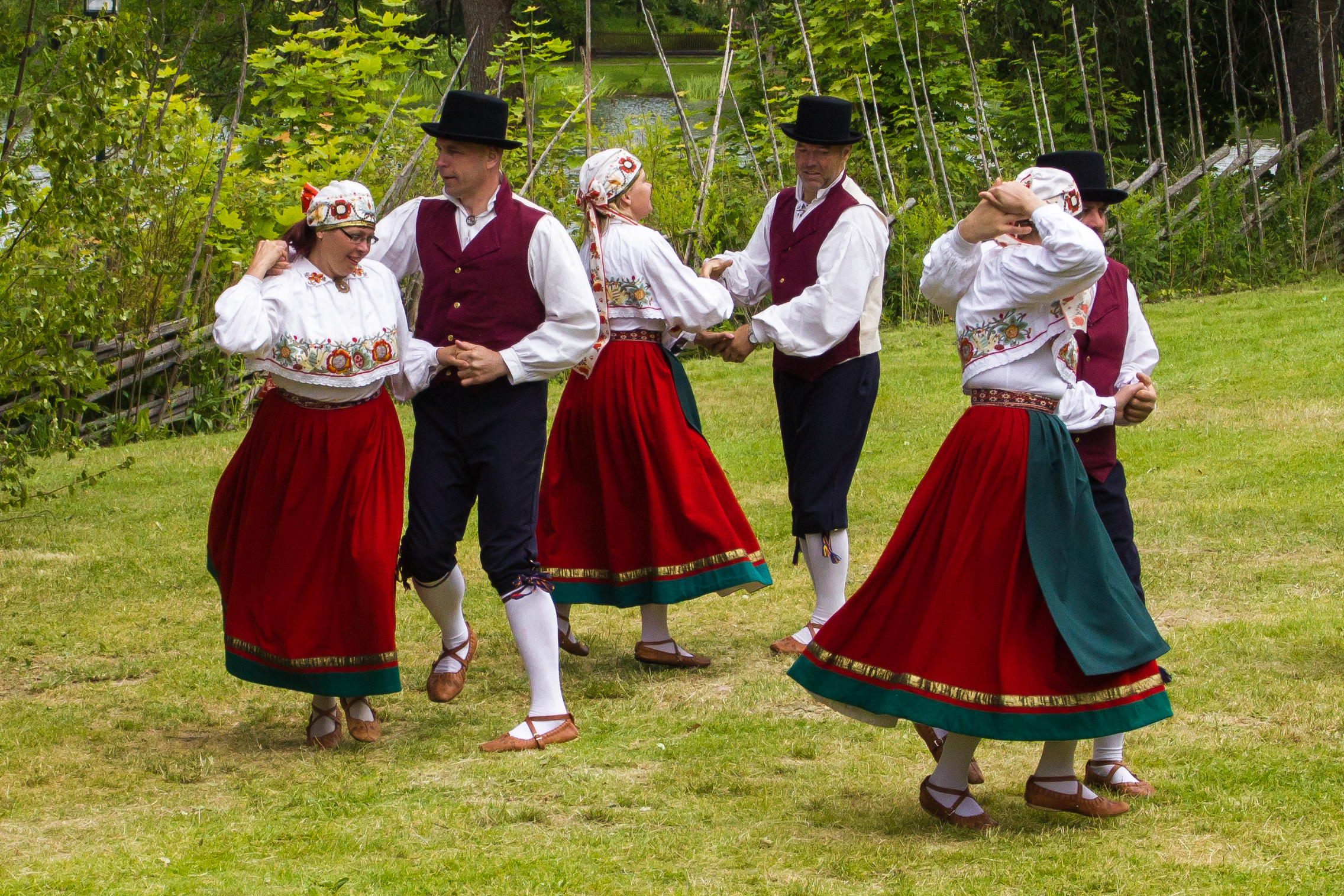 A folk dance group from Viljandi, Viljandi County (Viljandi maakond), Estonia, at Hedemora local heritage centre, Midsummer's Day 2014.